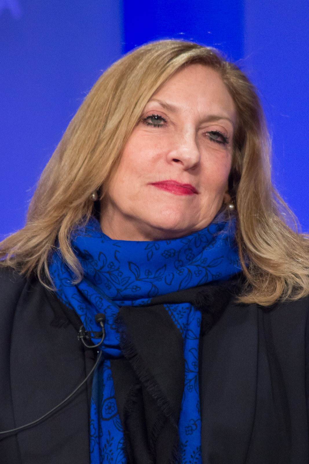 Lesli Linka Glatter at PaleyFest 2015 - An Evening with the Cast and Creative Team of Homeland